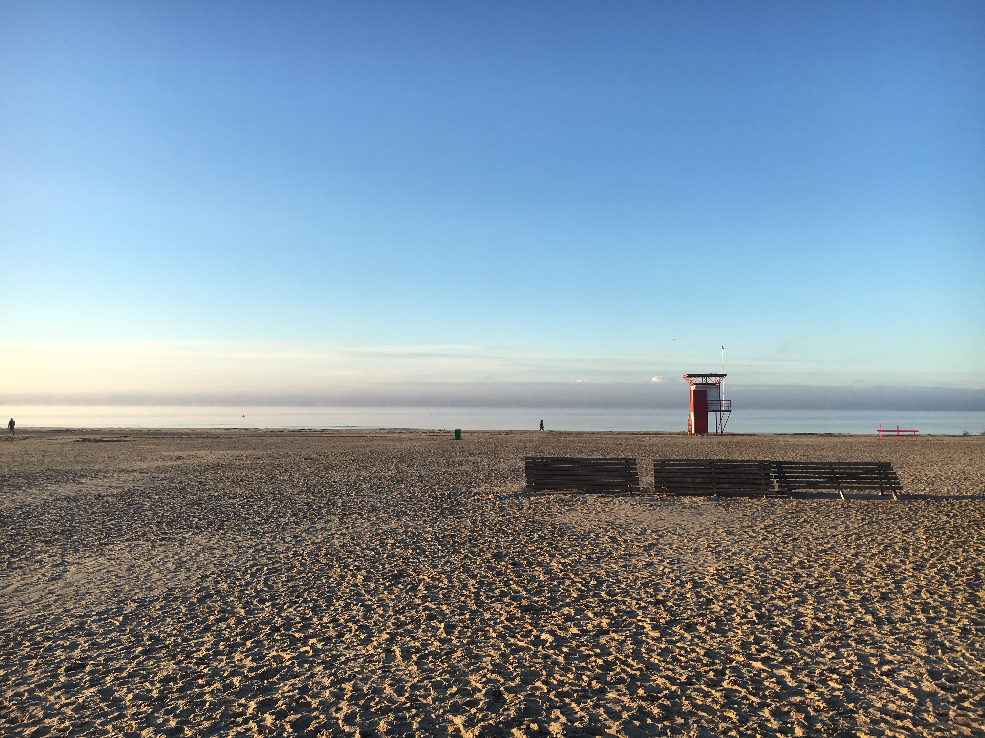 Pärnu Beach in October.